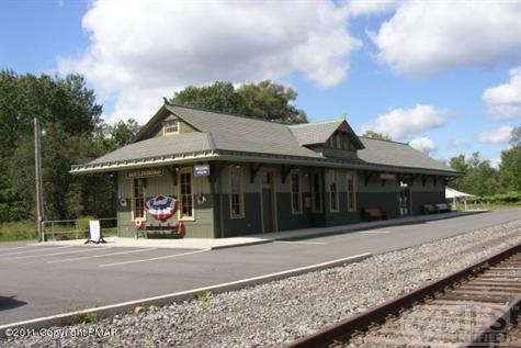 Restored train station in Gouldsboro, PA